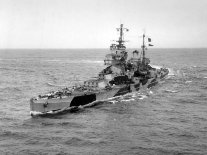 The Royal Navy battleship HMS Howe (32) underway at sea.